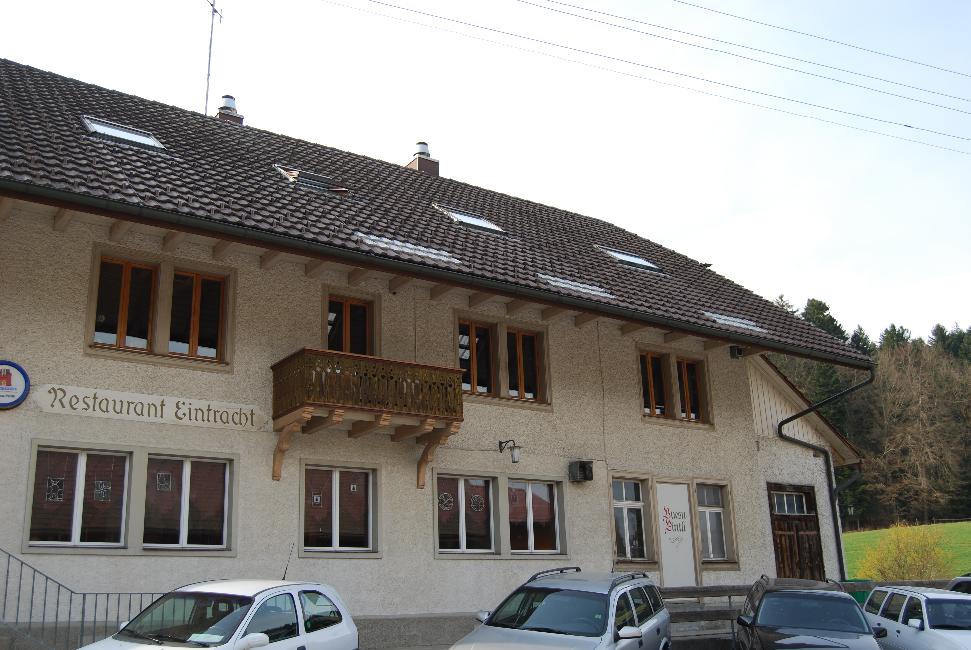 Busswil bei Melchnau, canton of Bern, SwitzerlandEsperanto: Busswil ĉe Melchnau, Kantono Berno, Svislando